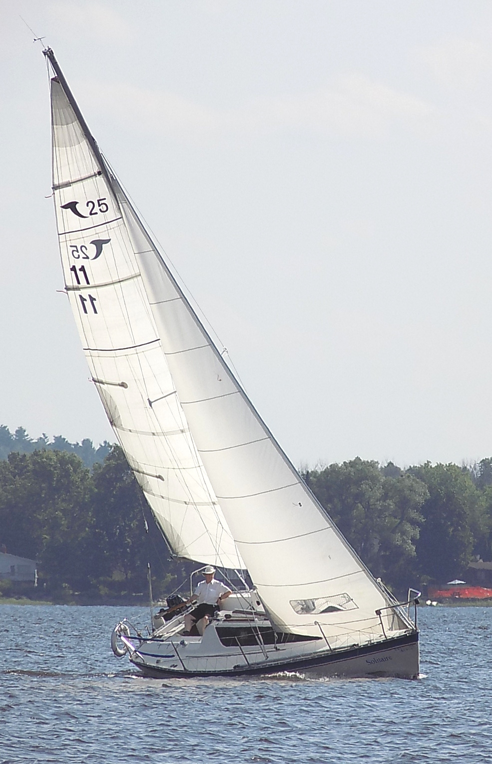 A Tanzer 25 sailboat named Solitaire.